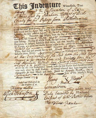 source: Immigrant Servants Database author: signed by Henry Mayer, dated 1738